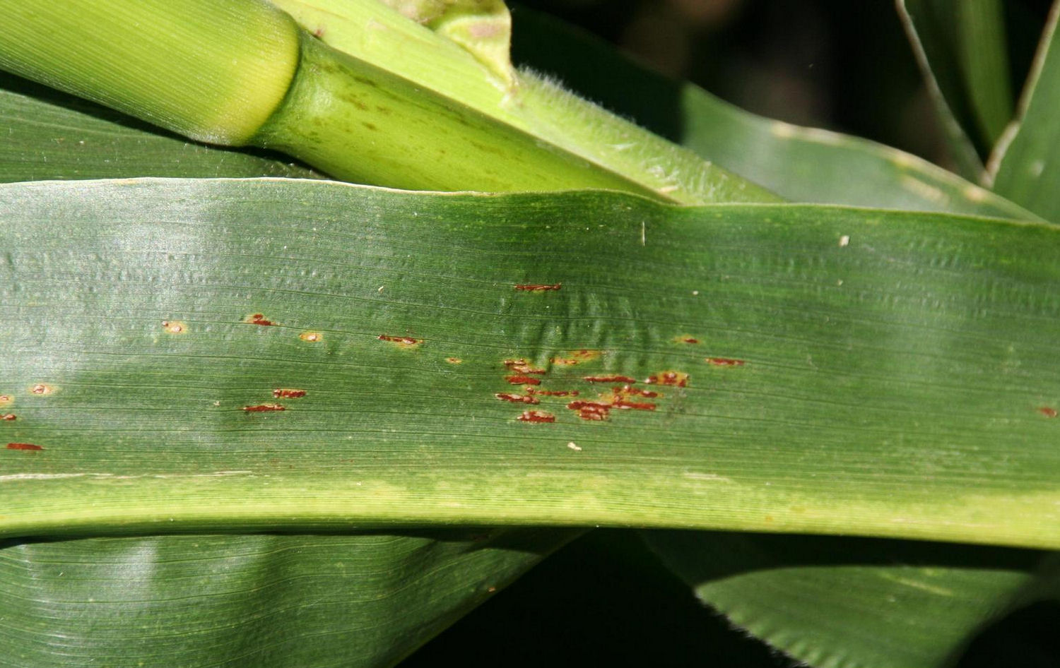 Common corn rust (Symptoms) Puccinia sorghi Schwein. Image location: , United States